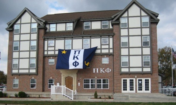 Pi Kappa Phi House (Upislon Chapter) at the University of Illinois at Urbana-Champaign